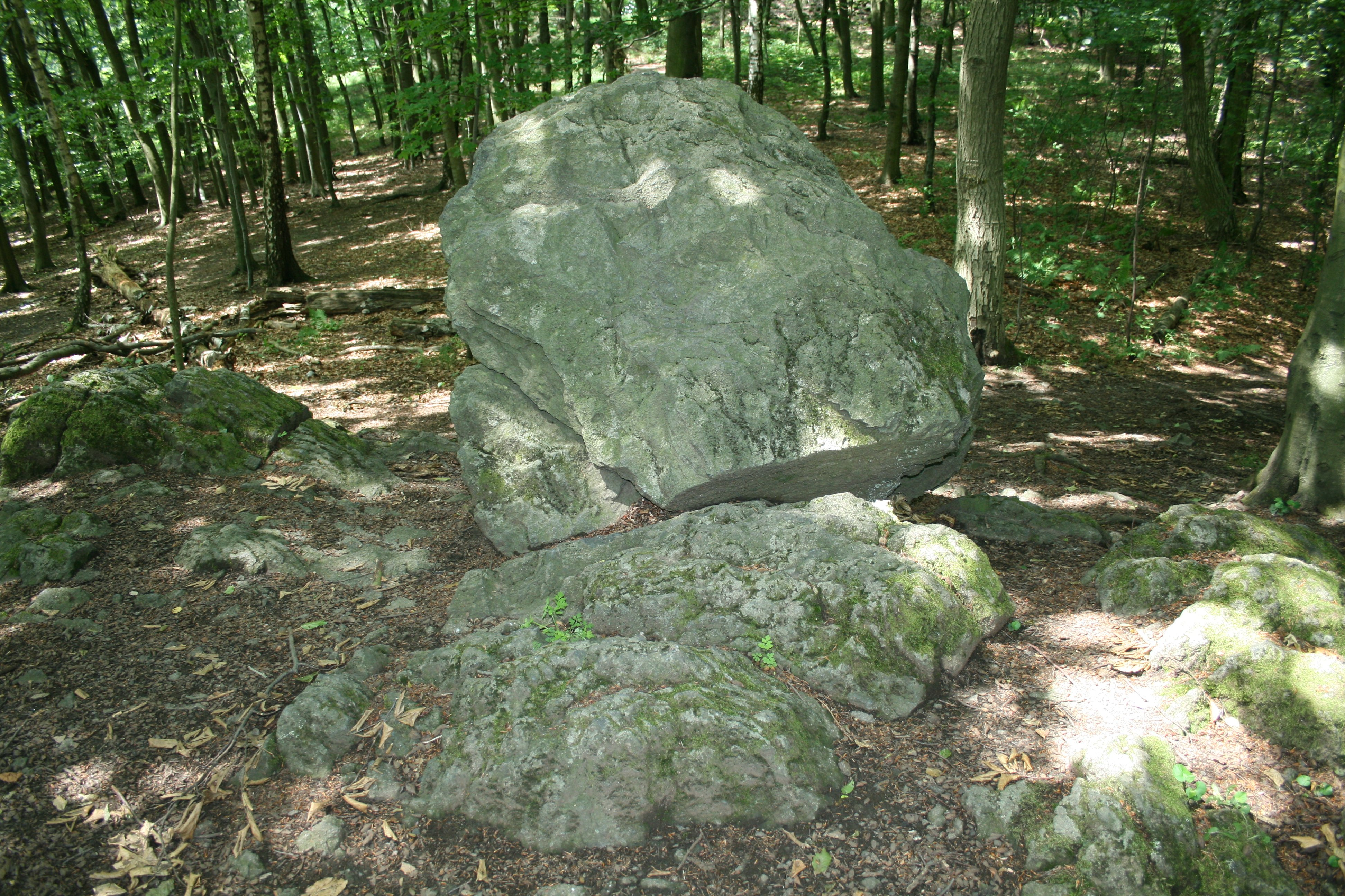 Magnetic stone near Burg Frankenstein